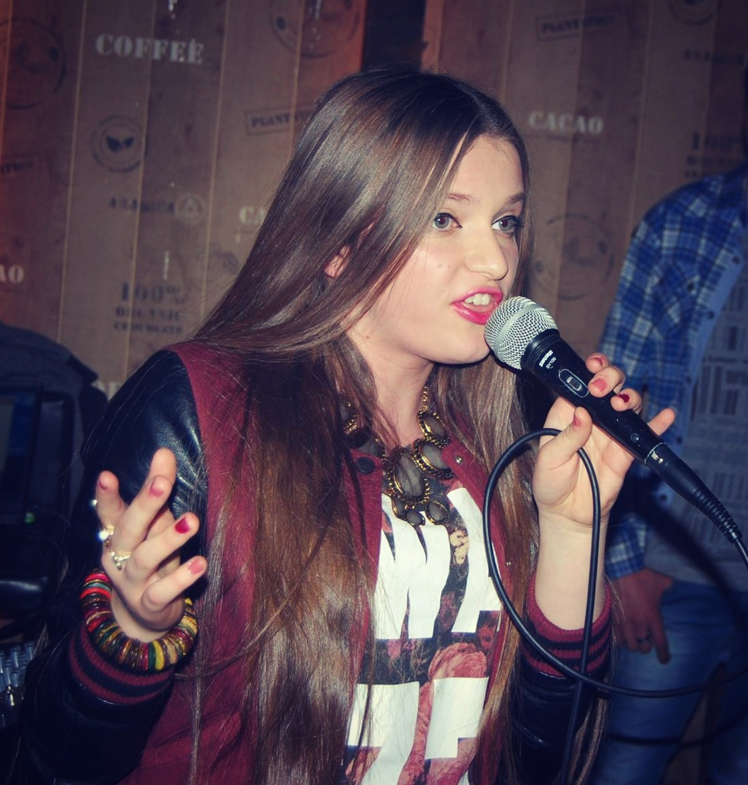 Albanian singer, Donika Nuhiu performing at a charity concert in Kumanovo, Macedonia - February 2014.